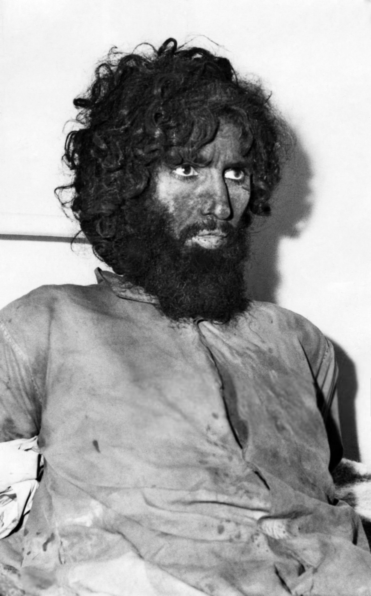 Juhayman al-Otaibi - Executed 9 January 1980